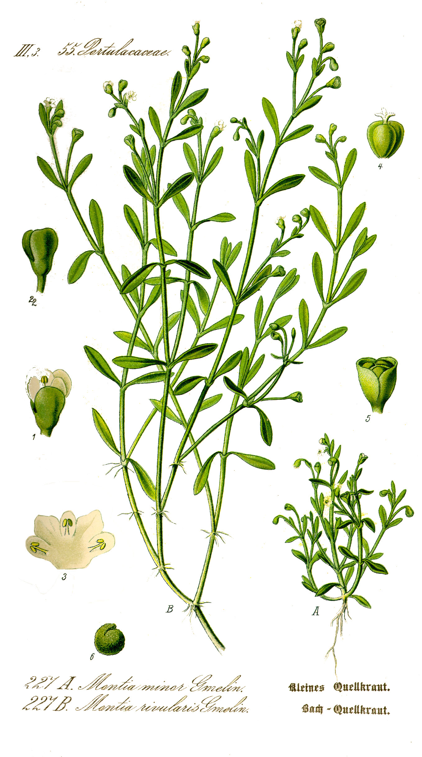 Both depicted taxa have now the name Montia fontana L., see IPNI or VAST. Comment from Ayacop 17:16, 29 September 2006 (UTC) Family Montiaceae